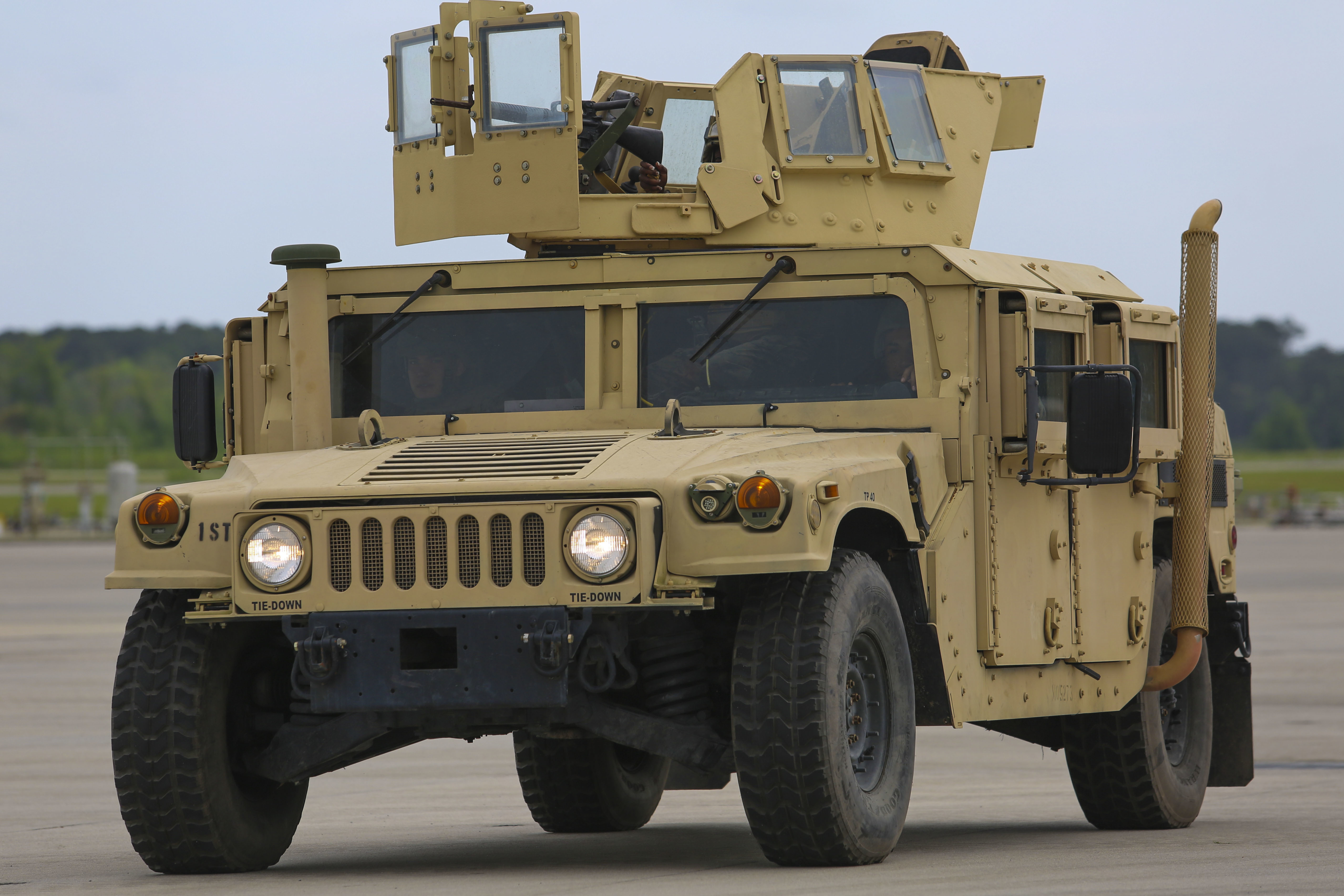 A High Mobility Multipurpose Wheeled Vehicle drives by the crowd during the Marine Corps Air Station Air Show above Beaufort, S.C., April 12, 2015. Local attendees experience local food, static aircraft displays, and performances by the U.S. Navy's Flight Demonstration Squadron, the Blue Angels, and numerous other military and civilian aircraft.